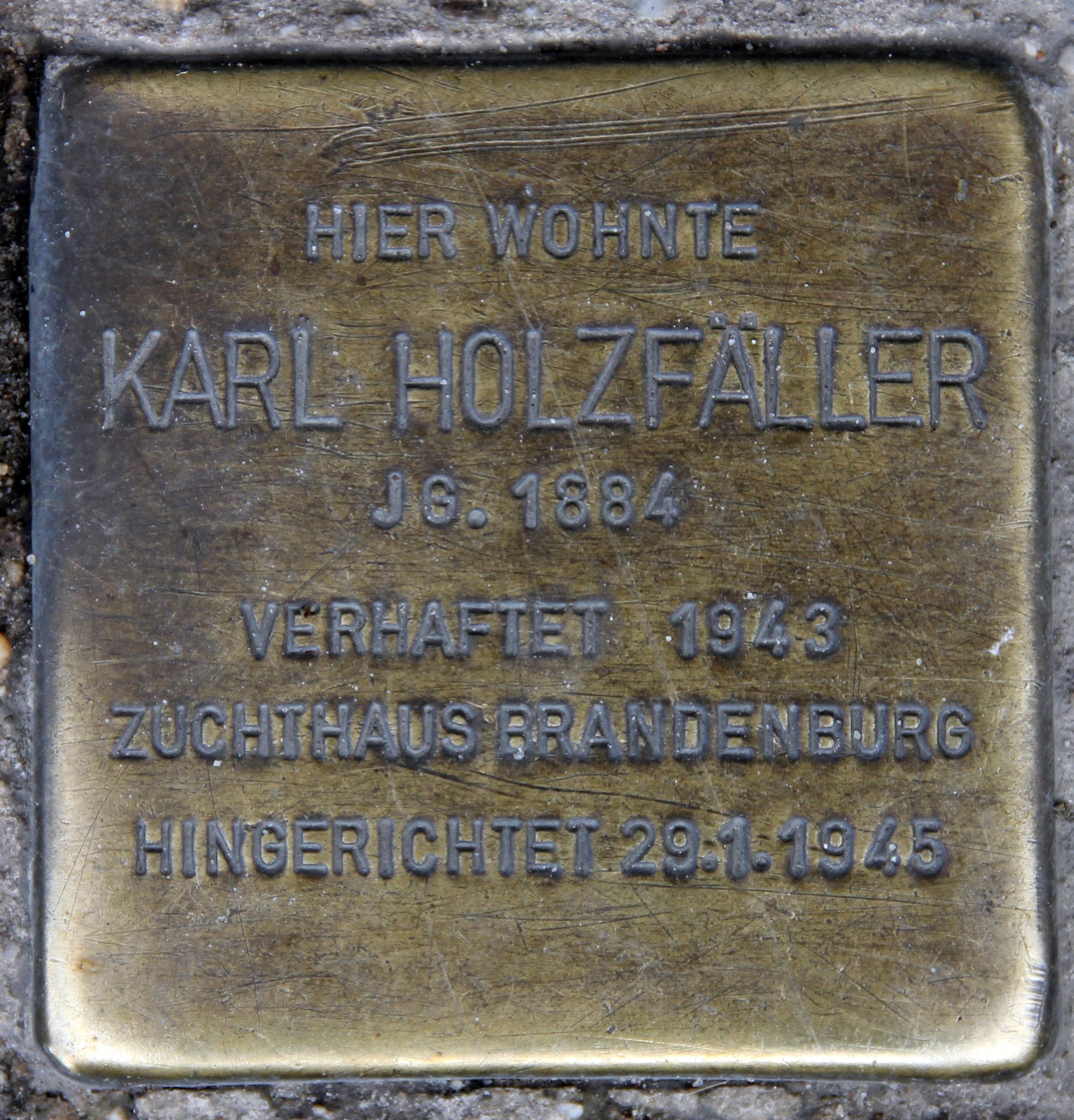 "Stolperstein" (stumbling block), Karl Holzfäller, Markgrafendamm 35, Berlin-Friedrichshain, Germany